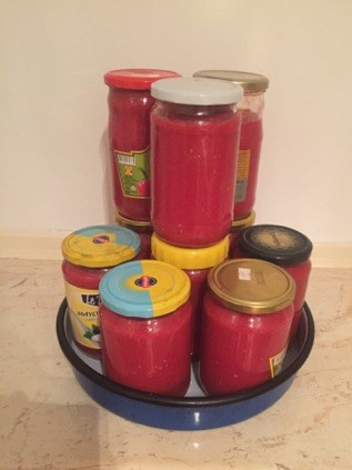 Macedonian nature ketchup